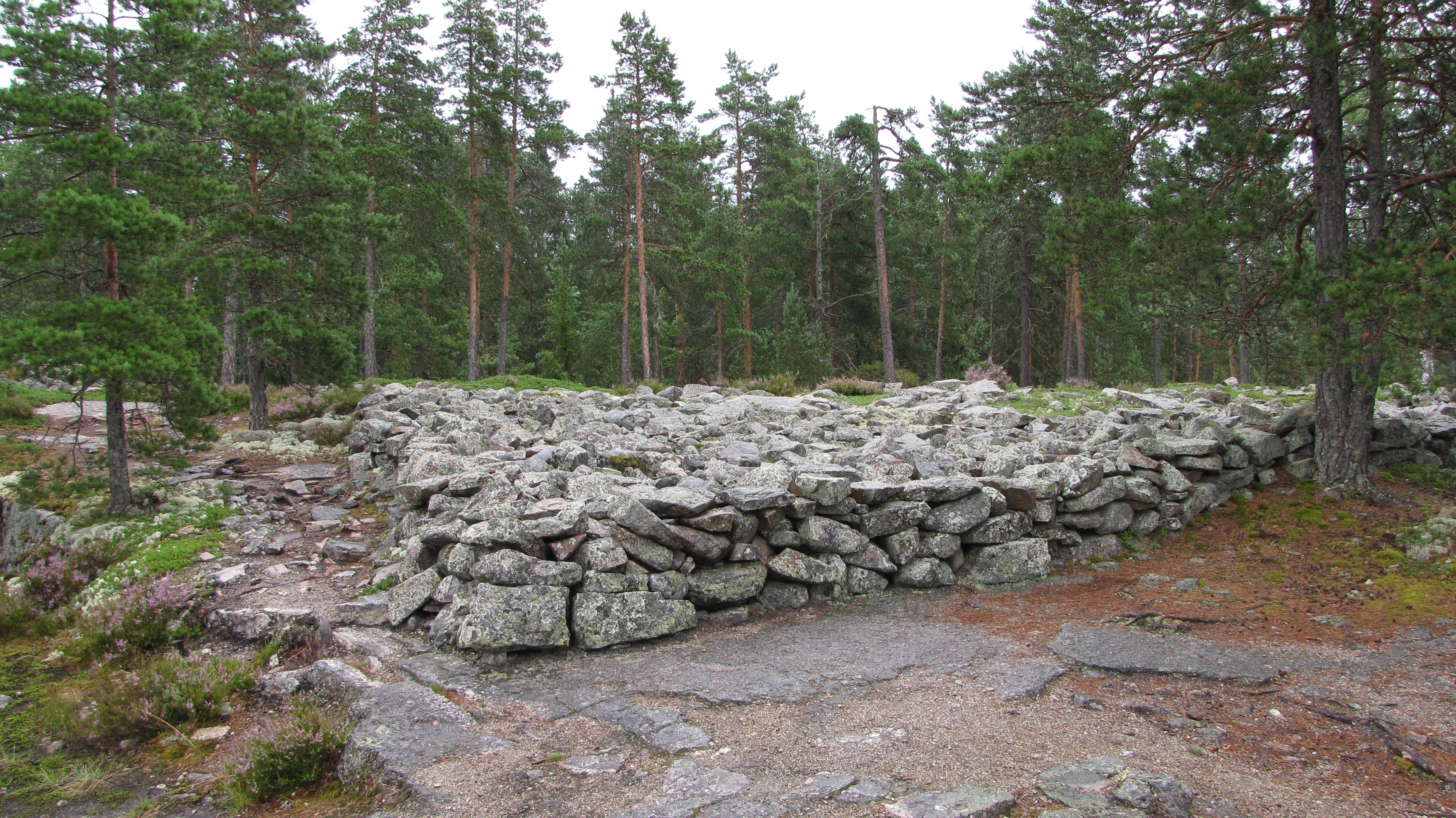 Sammallahdenmäki, a Bronze age burial site in Finland in Rauma municipality. It was designated by UNESCO as a World Heritage Site in 1999.